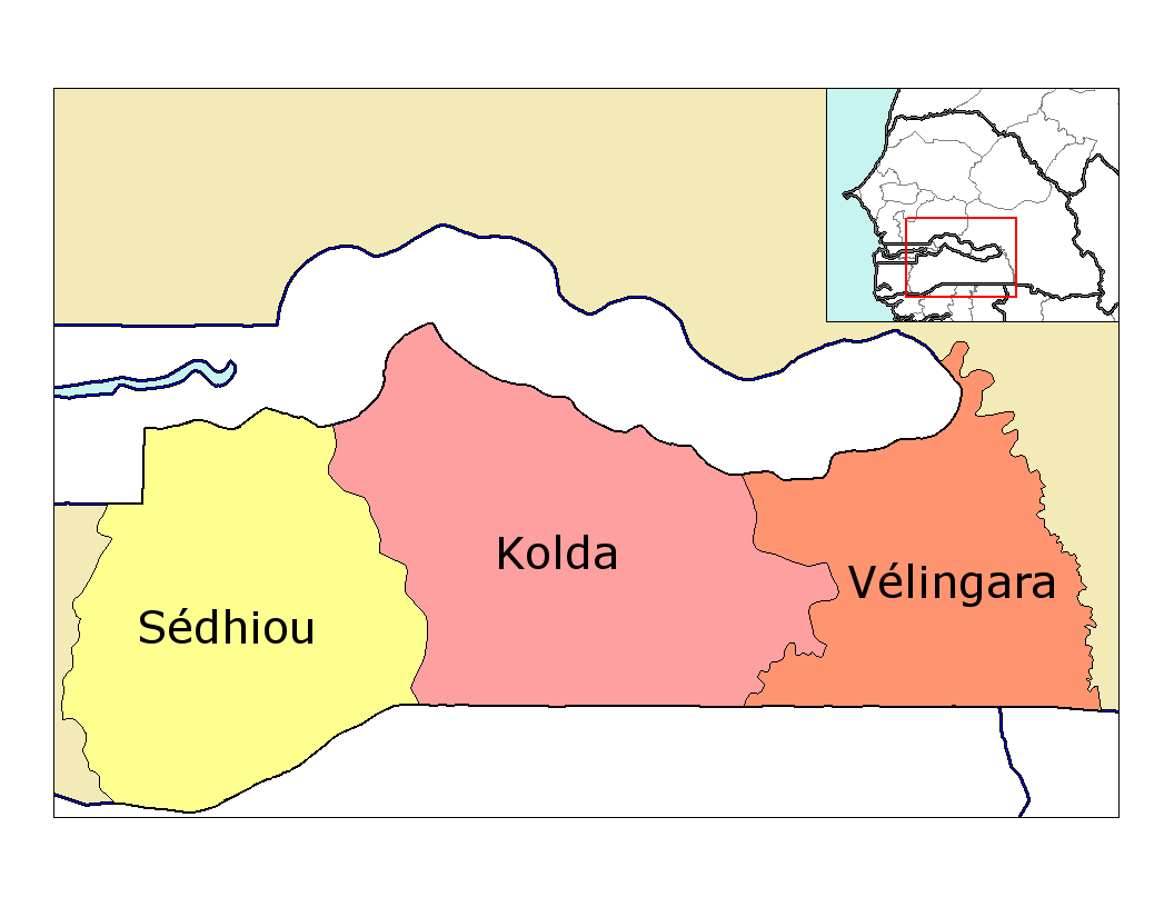 Map of the departments of Kolda region in Senegal. Created by Rarelibra 22:30, 28 December 2006 (UTC) for public domain use, using MapInfo Professional v8.5 and various mapping resources.